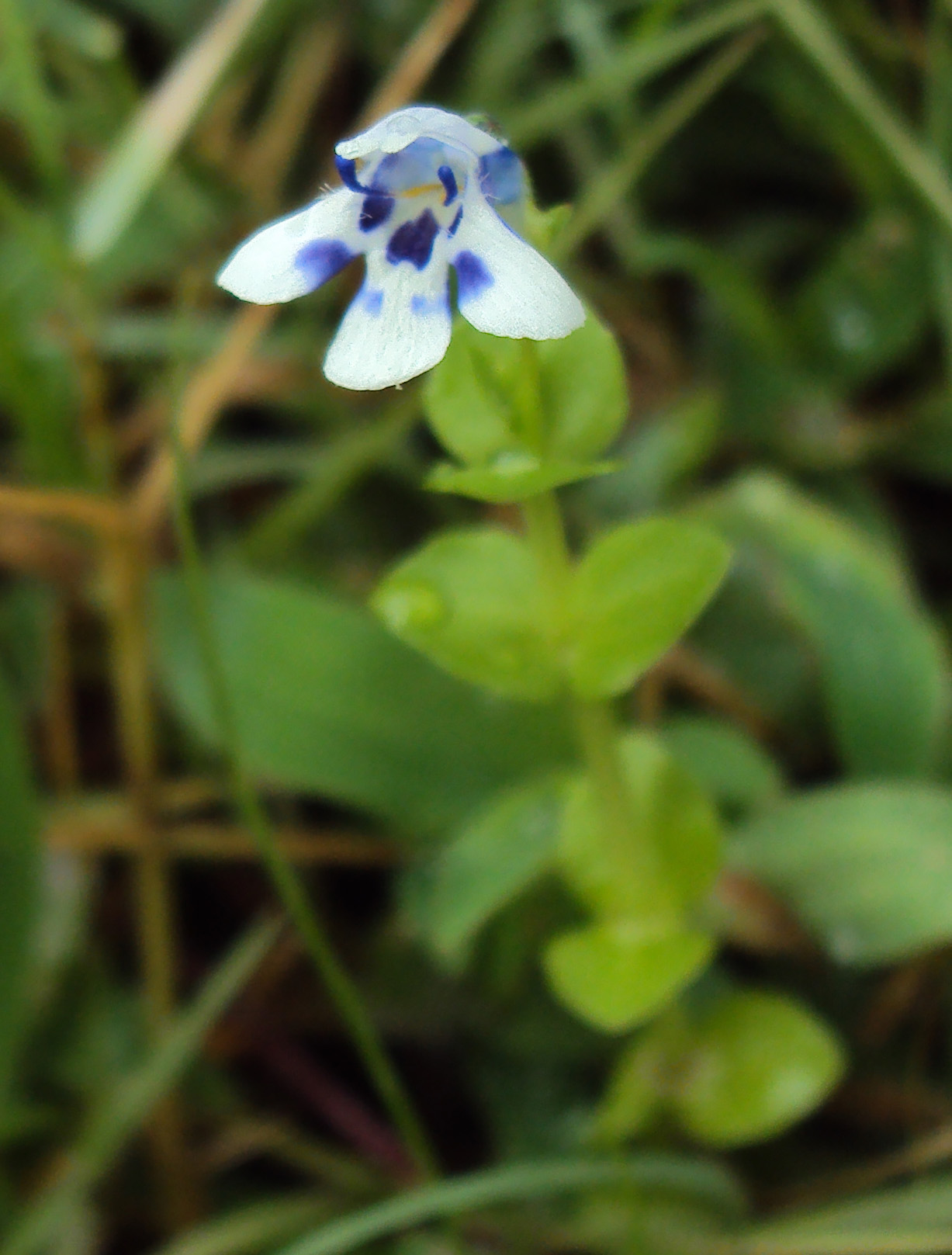 Lindernia rotundifolia